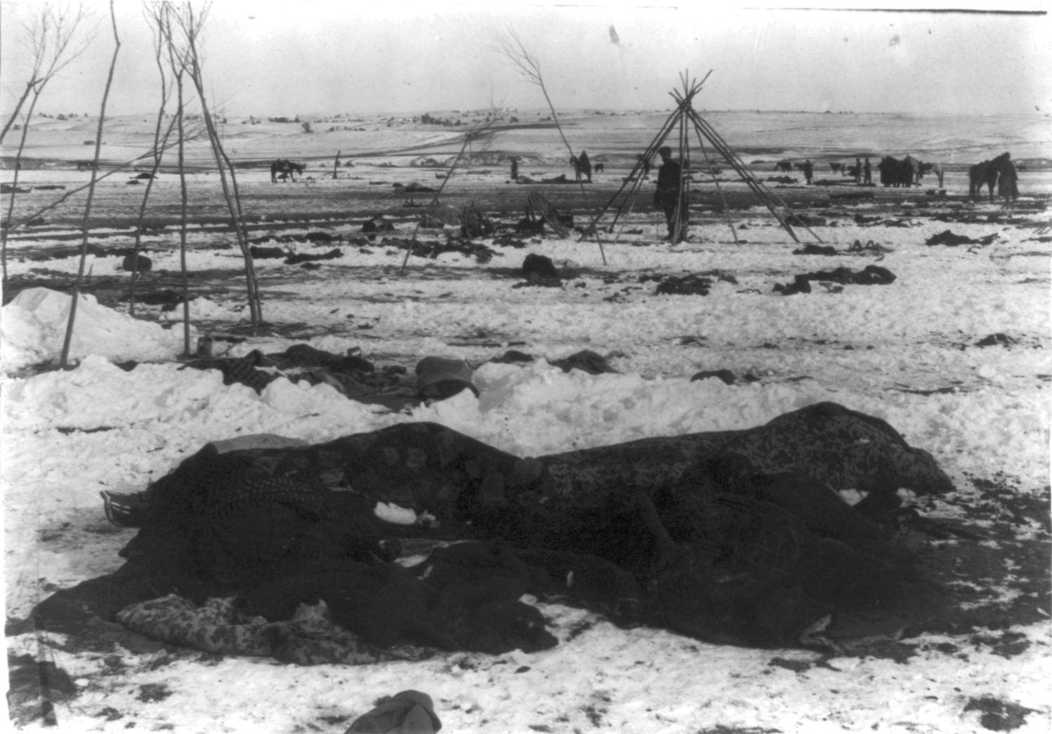 Big Foot's camp after Battle of Wounded Knee; U.S. soldiers amid scattered debris of camp